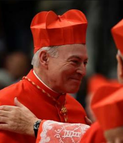 Cardinal Carlos Aguilar Reyes was the Archbishop of Tlaneplantla and was created a cardinal last November 19, 2016 and given the titular church of Santi Fabiano e Venanzio a Villa Fiorelli .